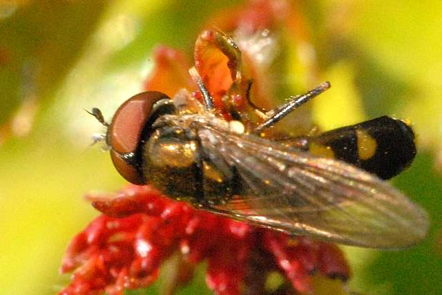 Platycheirus splendidus from Commanster, Belgian High Ardennes .